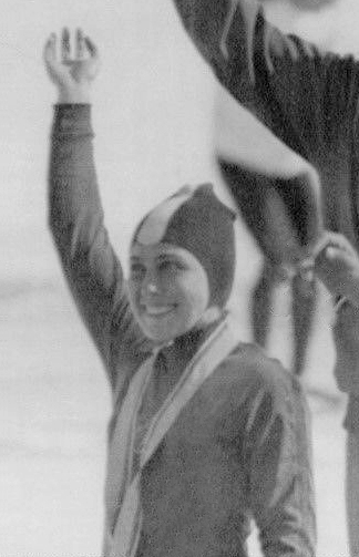 LG30 1972 Wire Photo VERA KRASNOVA ANNE HENNING LUDMILLA TITOVA Olympic Skaters